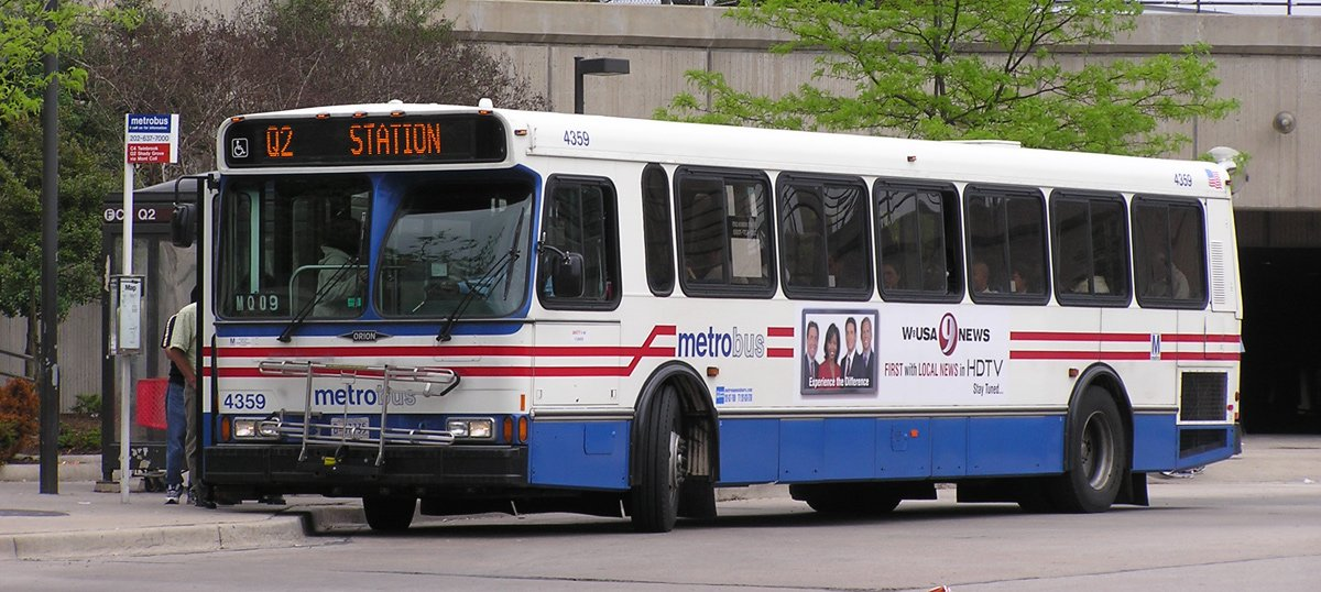 WMATA Metrobus 4359, a 1997 Orion V (40 ft), outside Wheaton station.